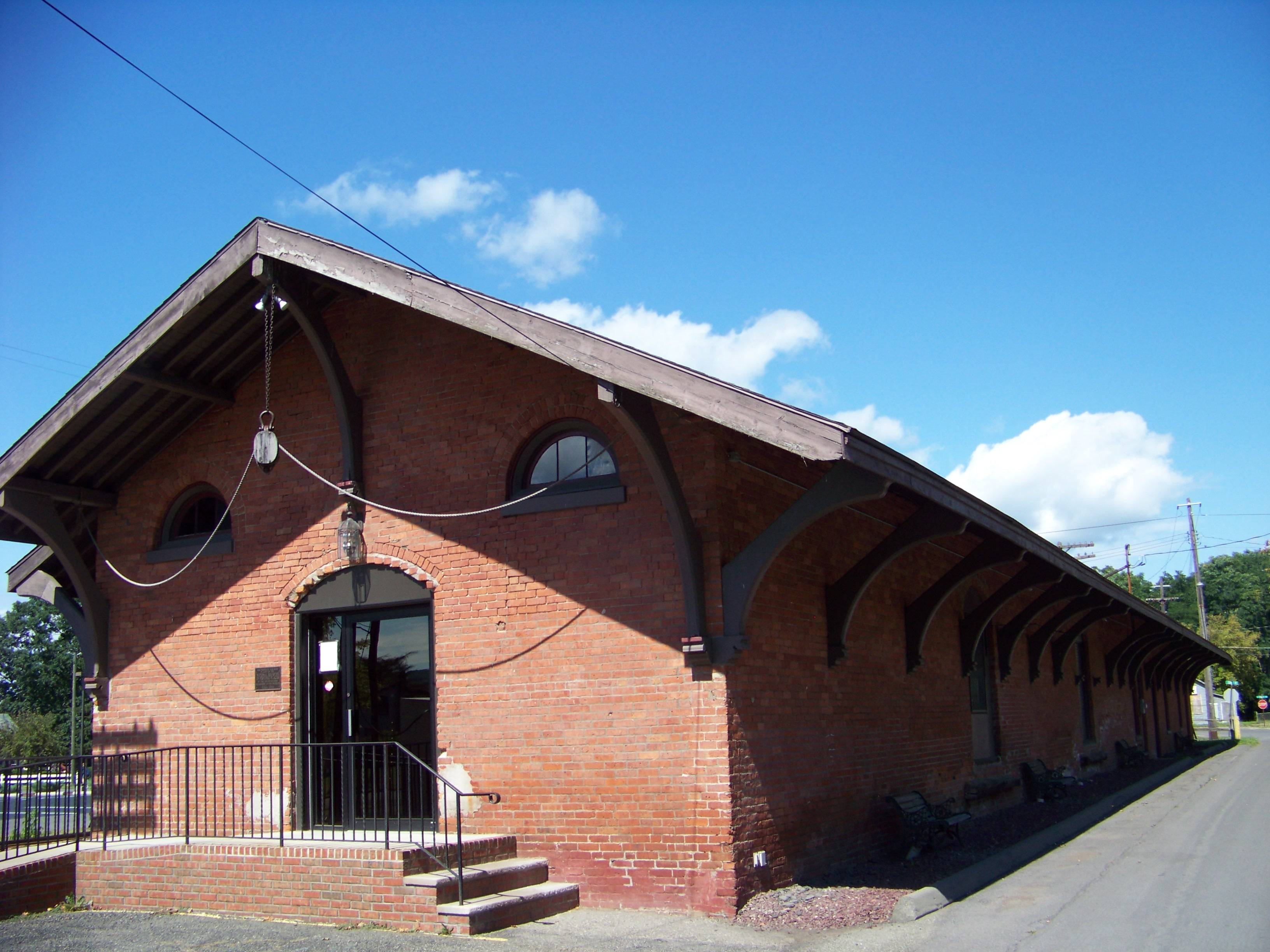 Chemung Railway Depot, Horseheads, New York